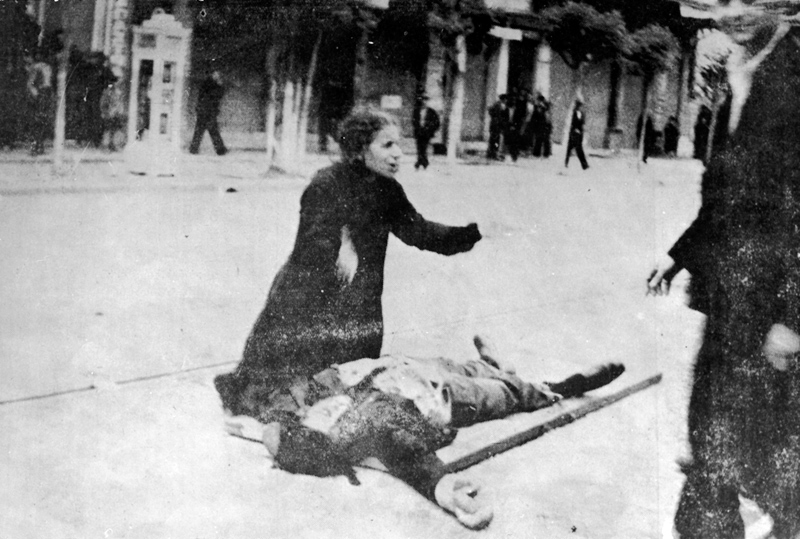 A photo allegedly from front page of the Greek newspaper Rizospastis, May 10, 1936. The real photo can be seen here: [1].